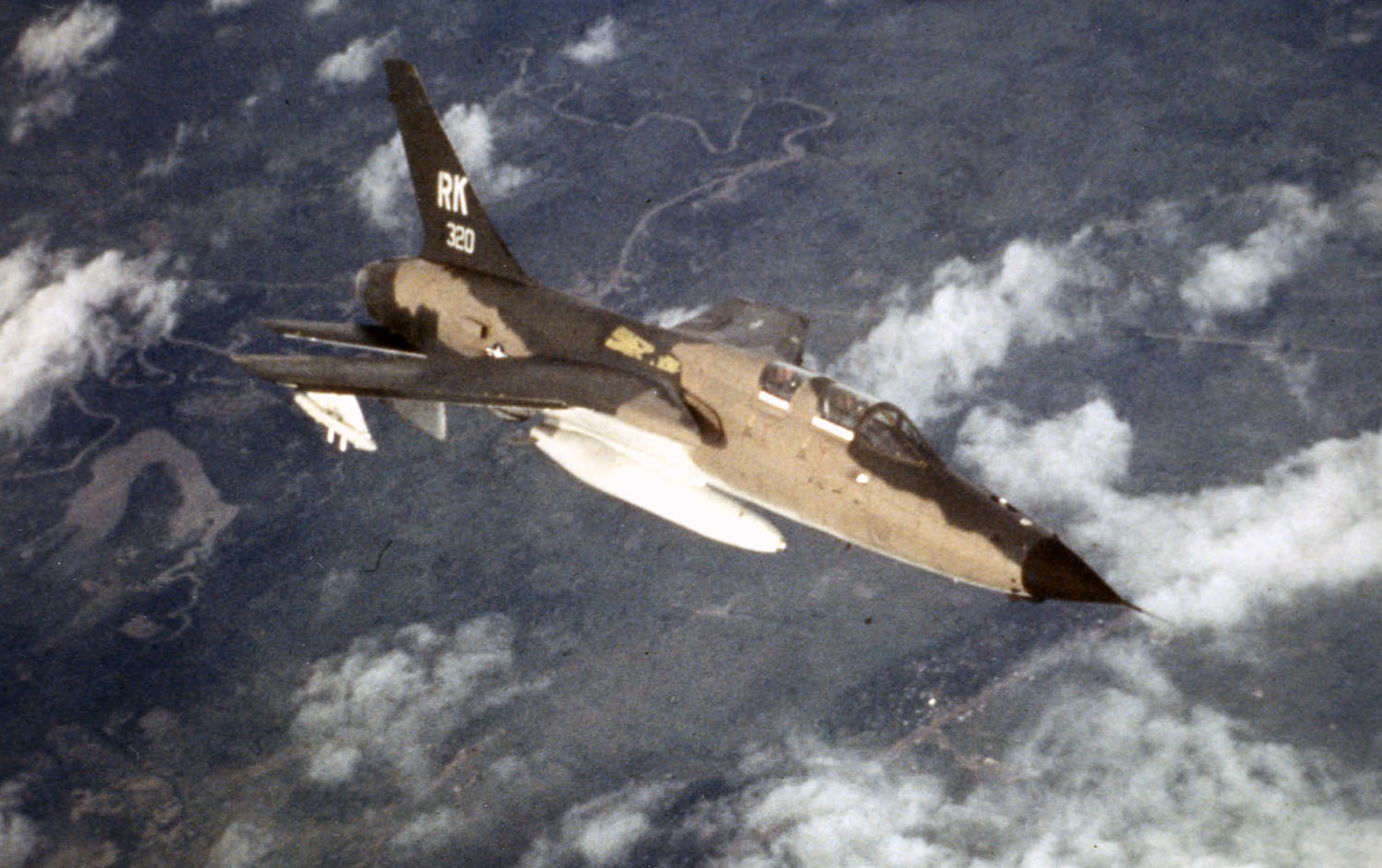 Republic F-105G (S/N 63-8320) of the 333rd Tactical Fighter Squadron, 355th Tactical Fighter Wing, in August 1968 over Vietnam. This aircraft is on display at the National Museum of the United States Air Force.